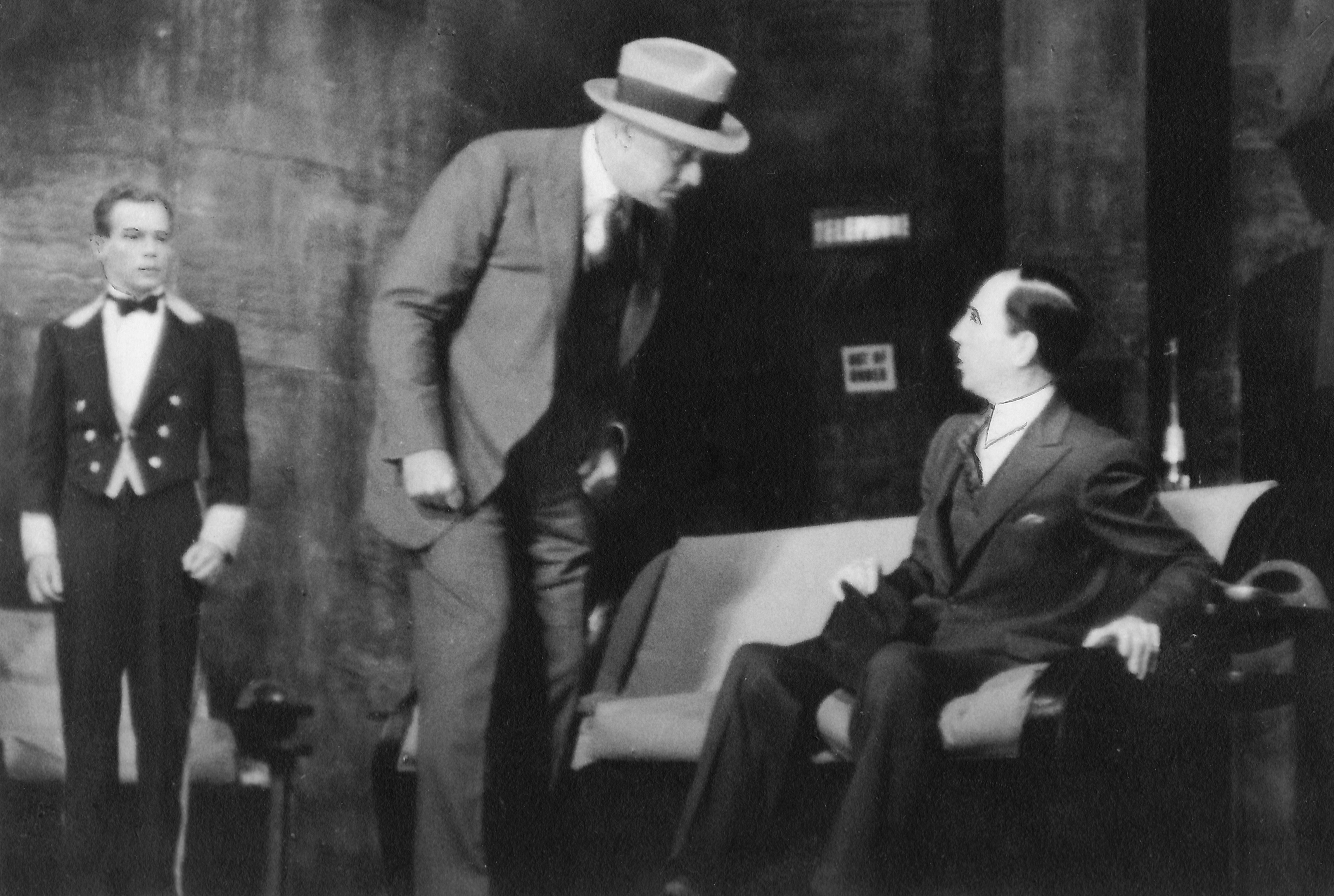 Photograph of Myron McCormick, Robert Middlemass, and Owen Martin in the 1934 stage production Small Miracle. Lead feature story is titled "A Playgoer's Discoveries" (no author credit). Caption reads as follows: The squealer (Owen Martin) is put through the third degree by Captain Seaver (Robert Middlemass) of the New York police force. Marginal note written on face of original photograph used for magazine printing reads as follows: Small Miracle Act III Tony is concealed in the tel. booth backstage. He has brought Anderson to the theatre by a ruse — Capt. Seaver is accusing Anderson of aiding Tony's escape.